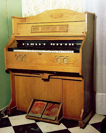 Harmonium Frisia model manufactured by G.A. Goldschmeding (The Netherlands) ca. 1930. Single manual, 10 half-stops, pump pedal.